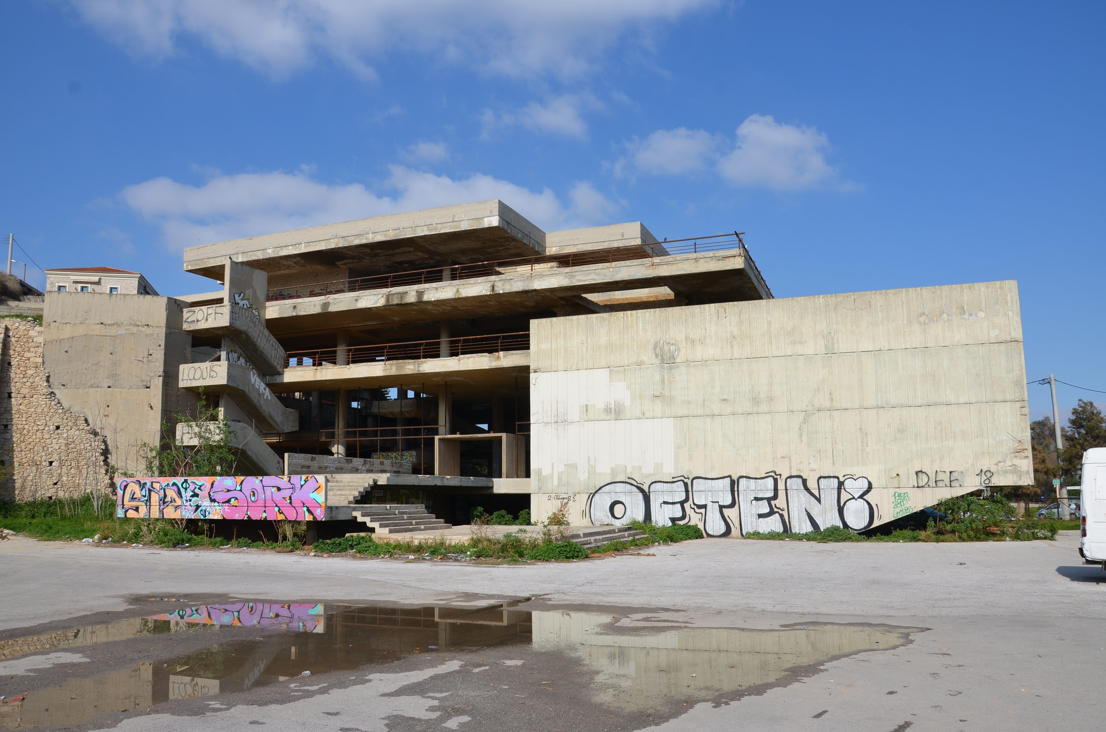 Liapis, Cultural Center